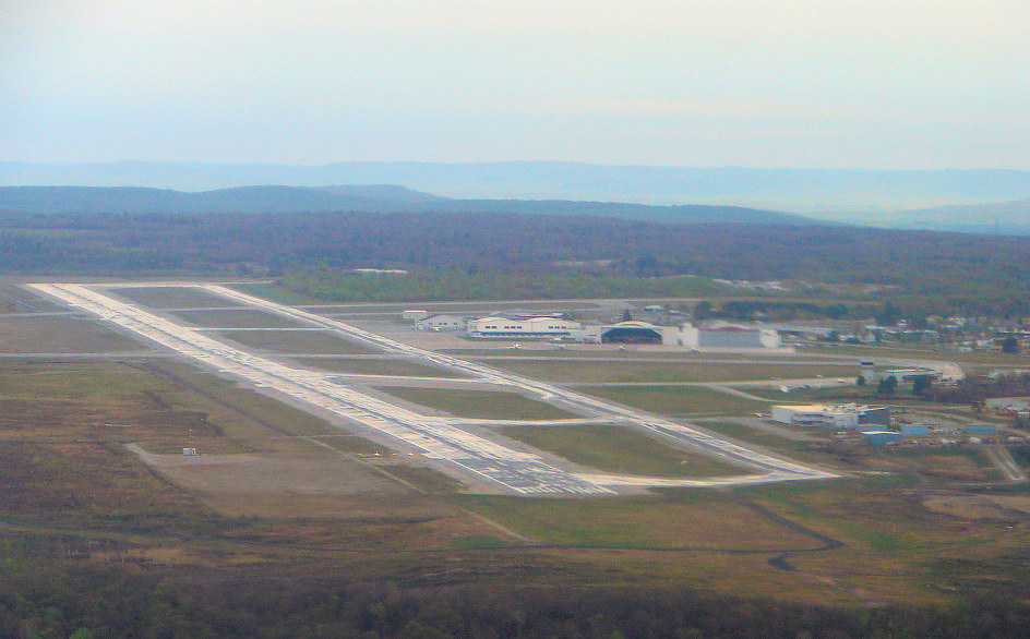 Approach to Jack Garland/North Bay Airport, Ontario, Canada